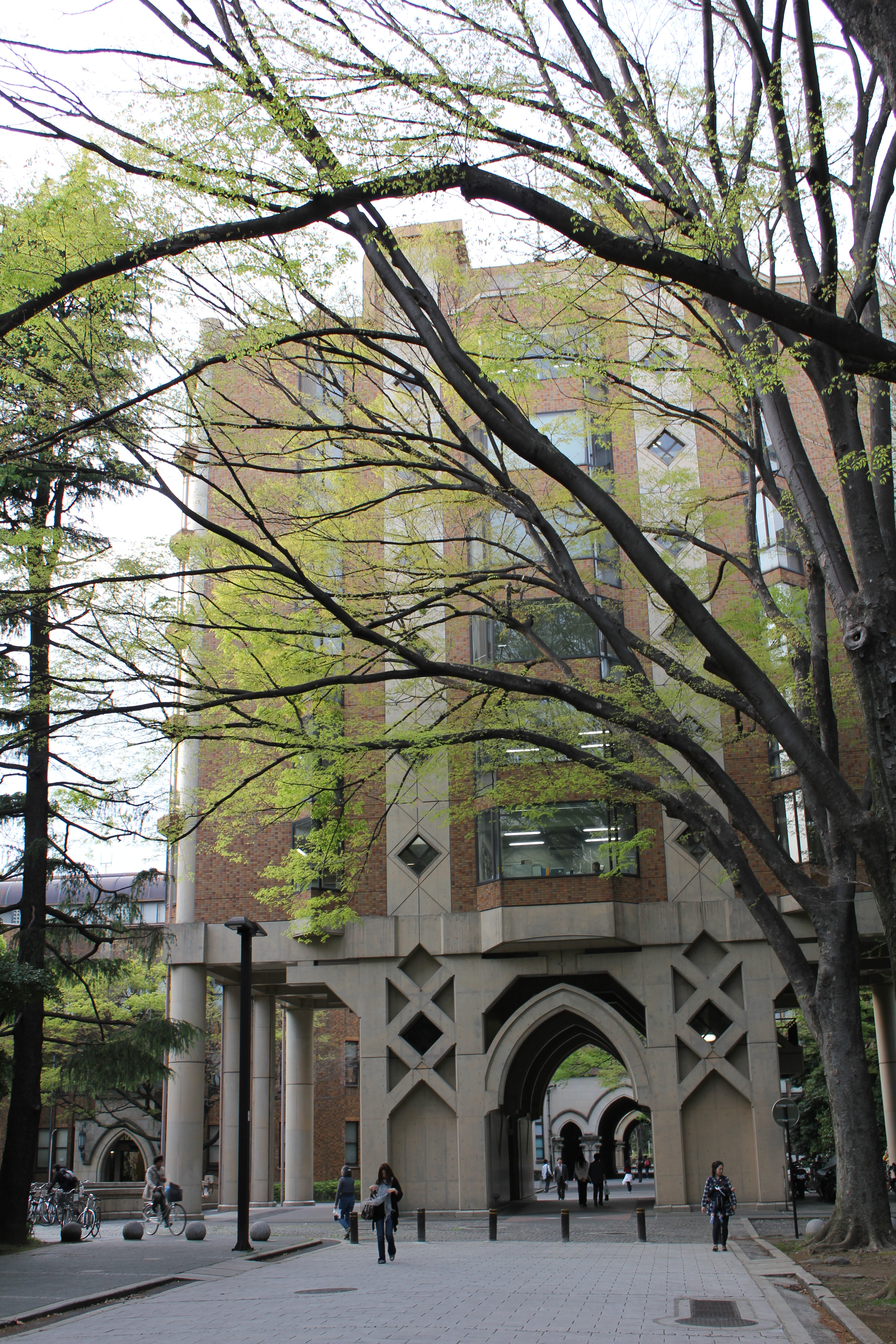 University of Tokyo's faulty of letters 3rd building, Hongo Campus, Japan.